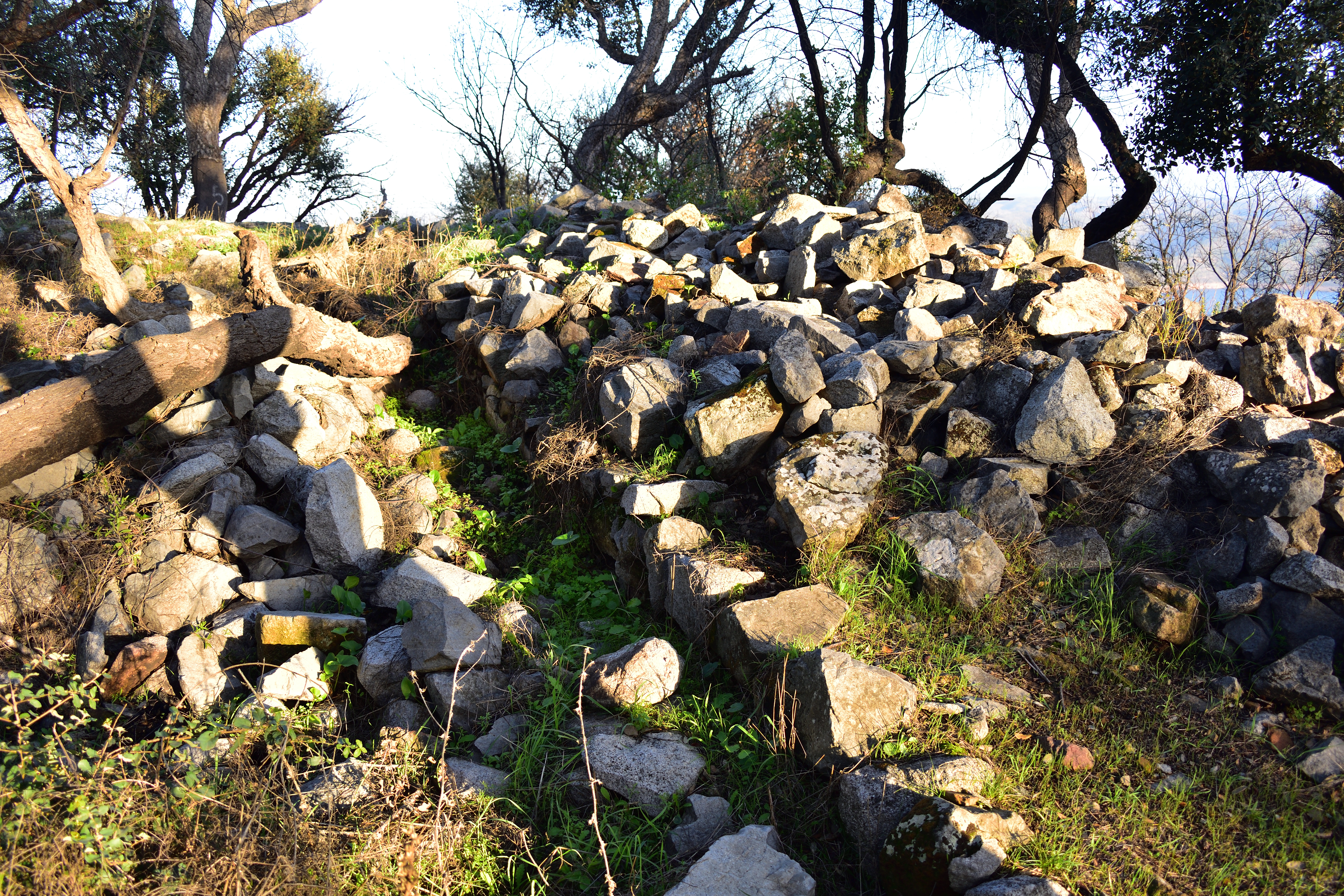 Castle of Alferce, in the region of Algarve, in Portugal.